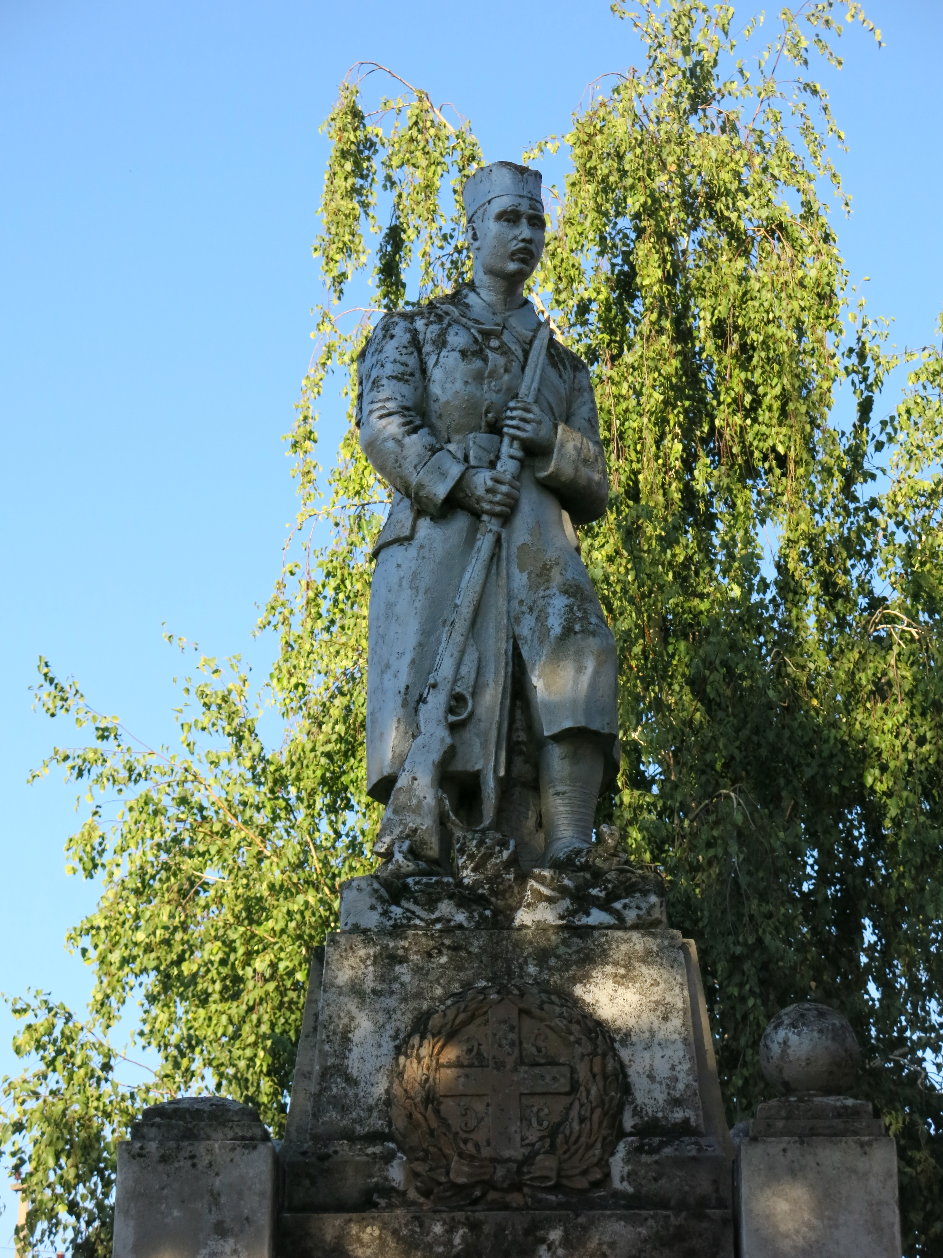 Saraorci, Monuments to the war fighters